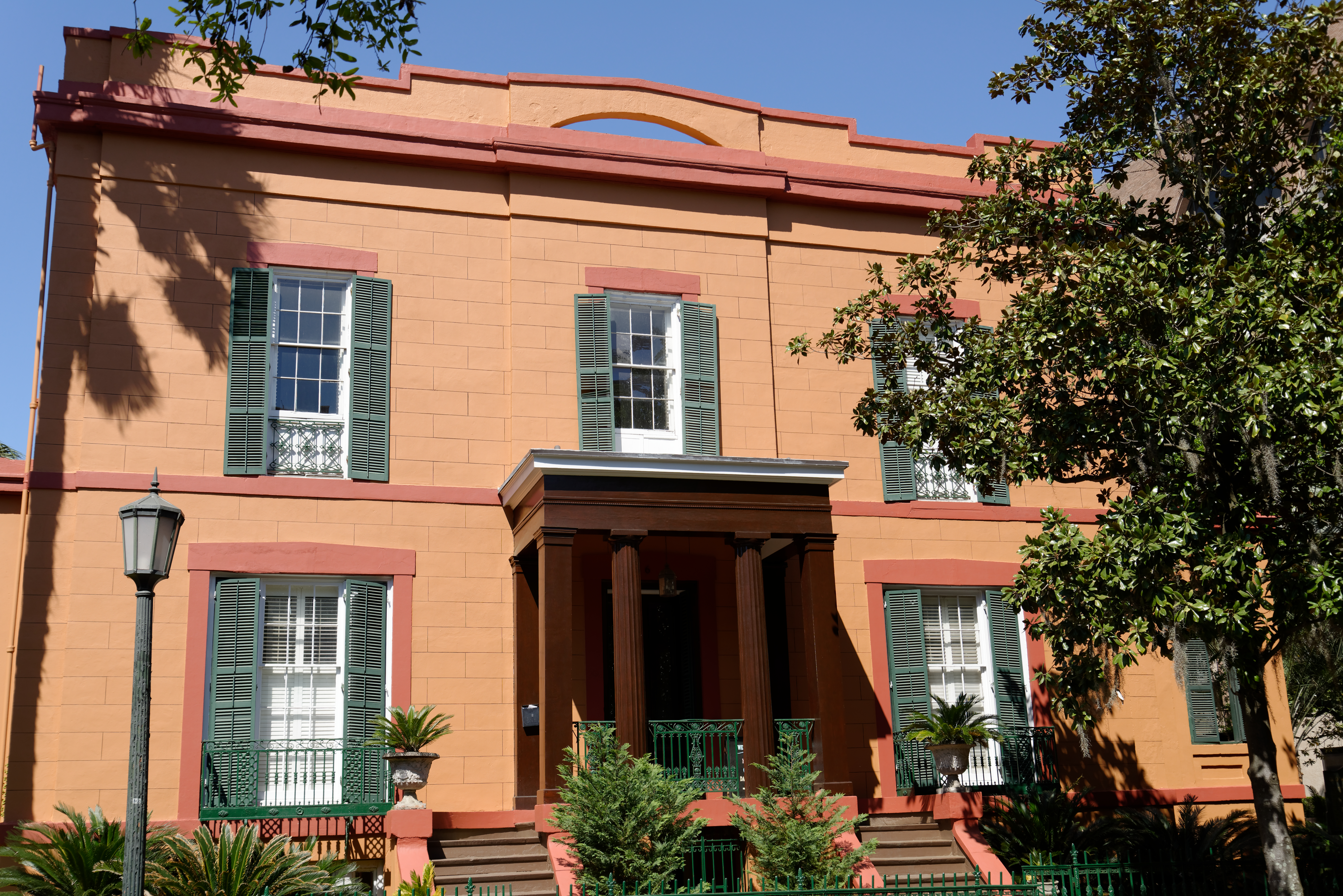 The Sorrel–Weed House in Savannah, Georgia, US